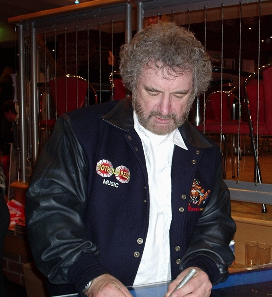 Kevin "Bloody" Wilson signing for Trevor Burtonshaw during the Dilligaf Tour; Cropped version edited by Svetovid